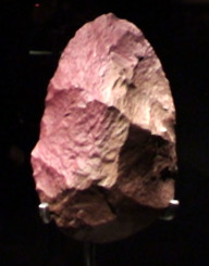 Flint from Atapuerca, named Excalibur